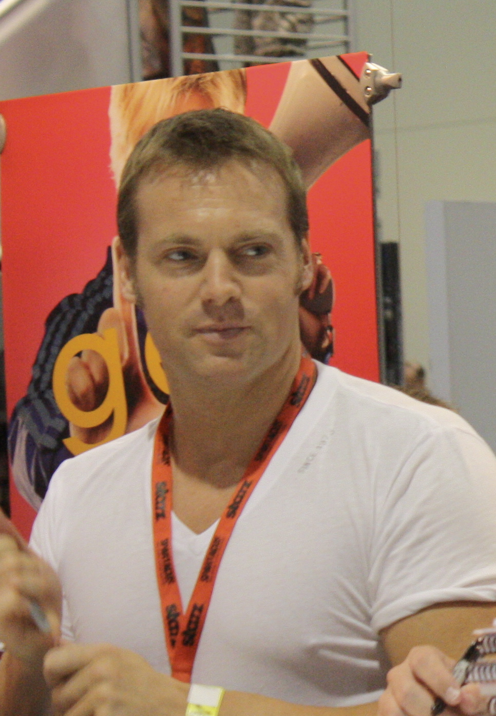 Michael Shanks at Comic Con 2009. He was Victor in the second season of Burn Notice. But most people at Comic-Con know him as Dr. Daniel Jackson from Stargate.